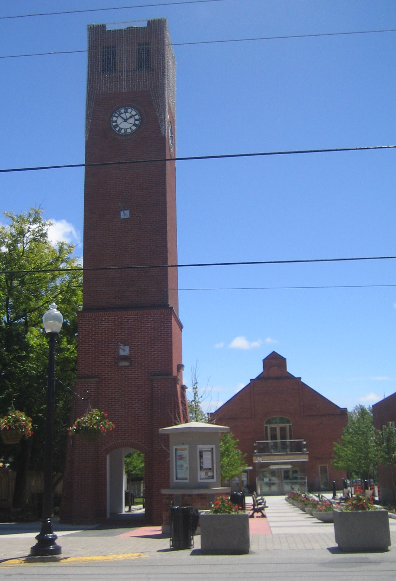 Historic Clock Tower and The Lebovic Centre for Arts & Entertainment: Nineteen-on-the-Park (2010), 19 Civic Avenue, Stouffville, 2010.